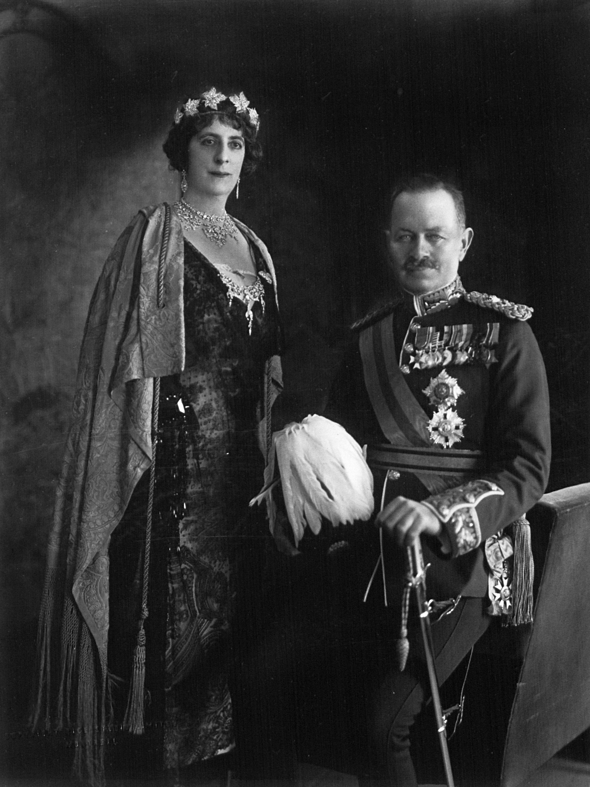 Lord and Lady Byng.